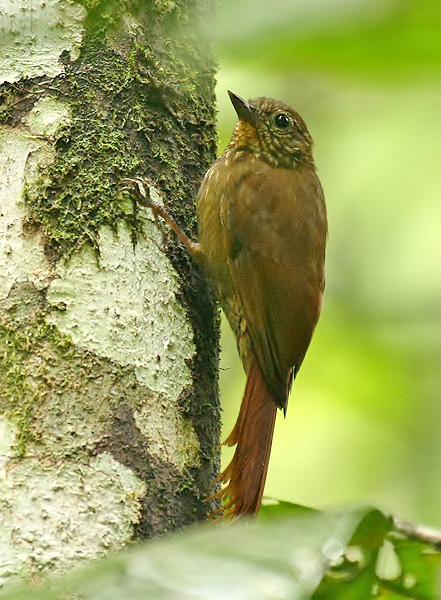 Wedge-billed Woodcreeper (Glyphorynchus spirurus) at Rio Silanche (PVM), NW Ecuador.